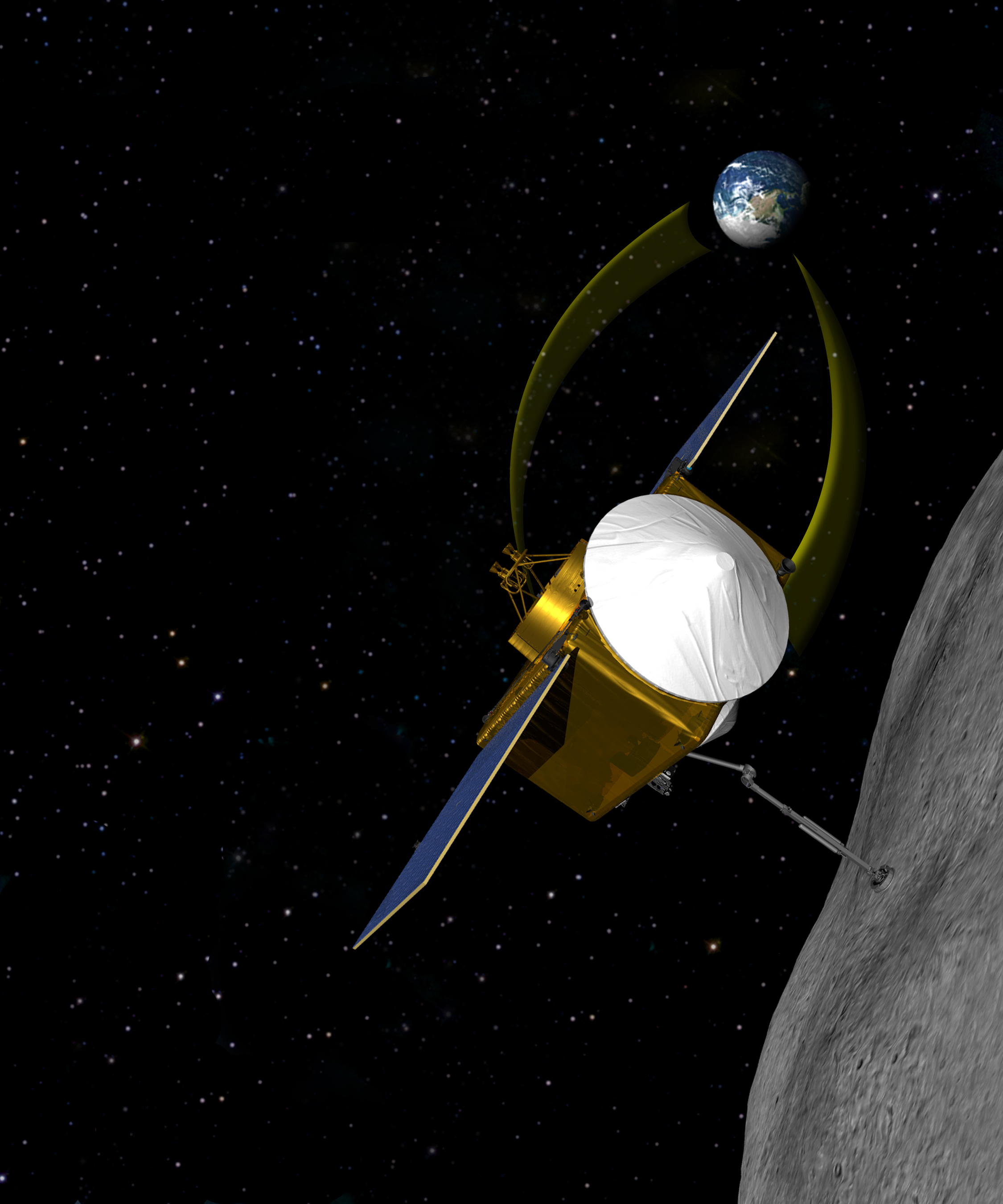 Conceptual image of OSIRIS-REx spaceprobe